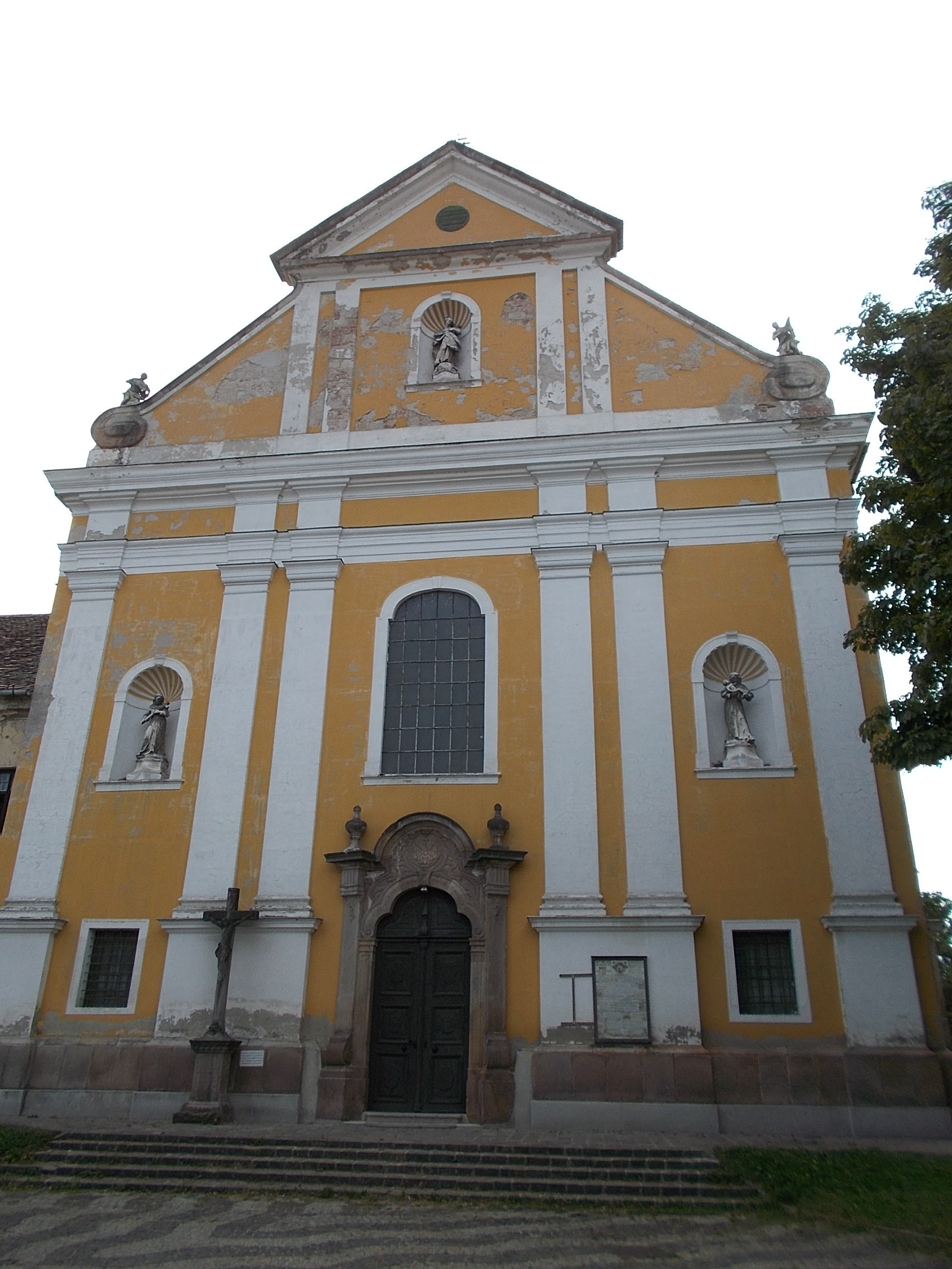 The Franciscan Church and Friary is a historic building. Listed ID 7507. The oldest church of Vác belonged to the Franciscans. It stood on the place of the old fortress destroyed during the siege of the Turks in 1685. Using the stones of the fortress, people built a new church in Baroque style in mid 18th century. The main ornament of the church is the richly decorated early Rococo two-storeyed wooden altar. The friary belonging to the church used to give home to György Váczi, the nationally renown bookbinder. A part of the building is now used as archives. (vac.hu) - Géza király Square, Vác, Hungary